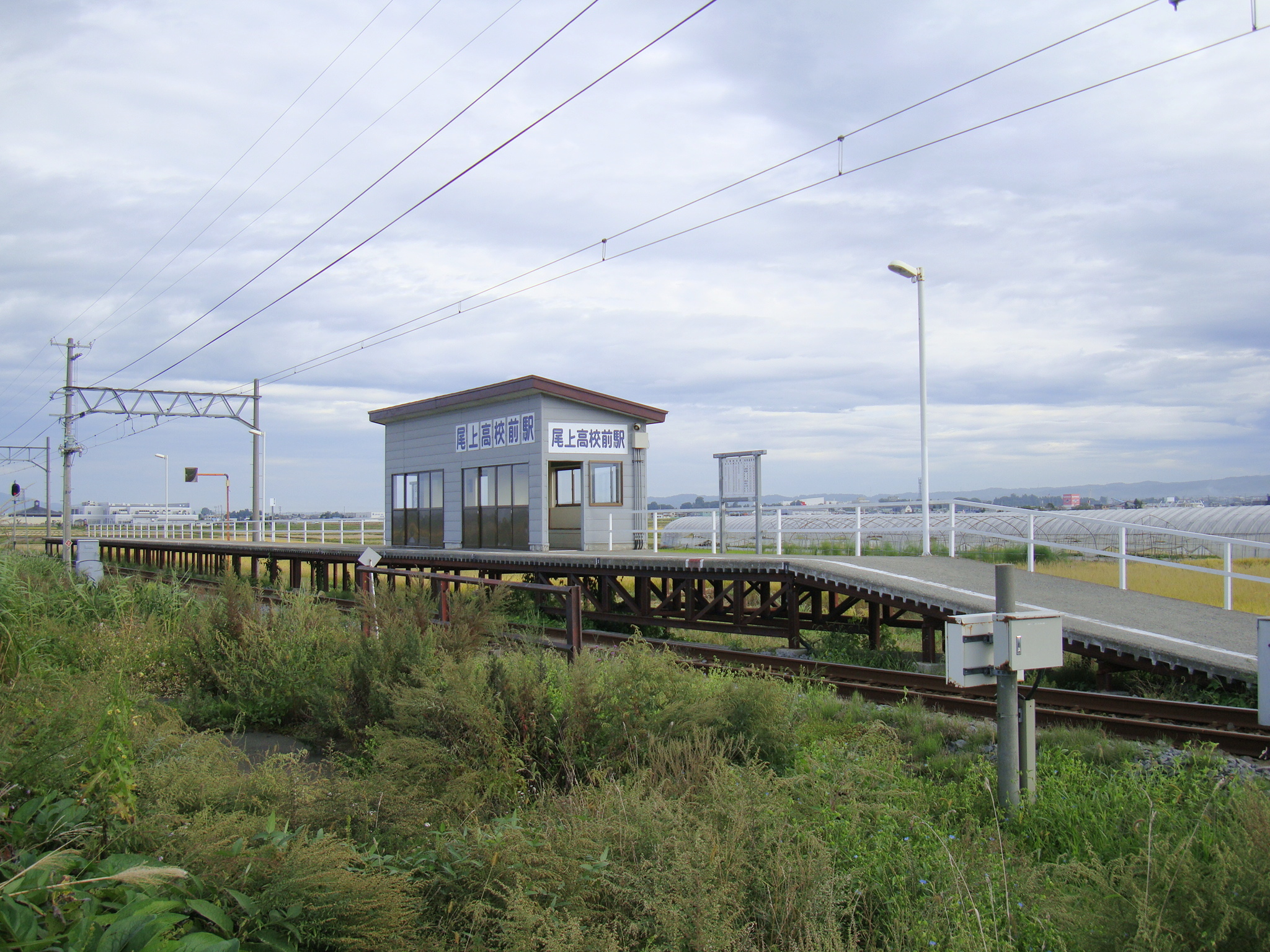 Onoe Kōkō-mae Station